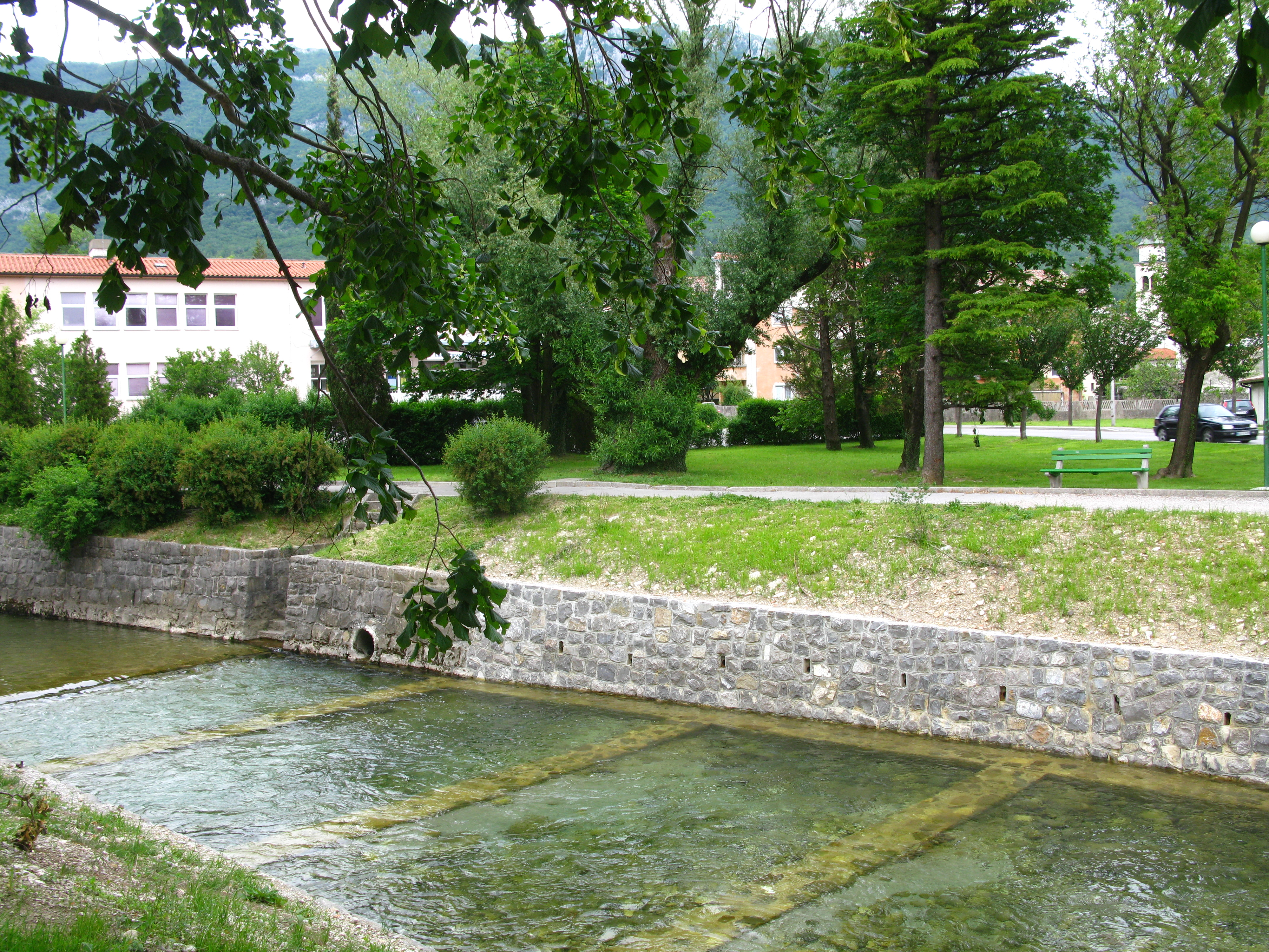 Hubelj in Ajdovščina